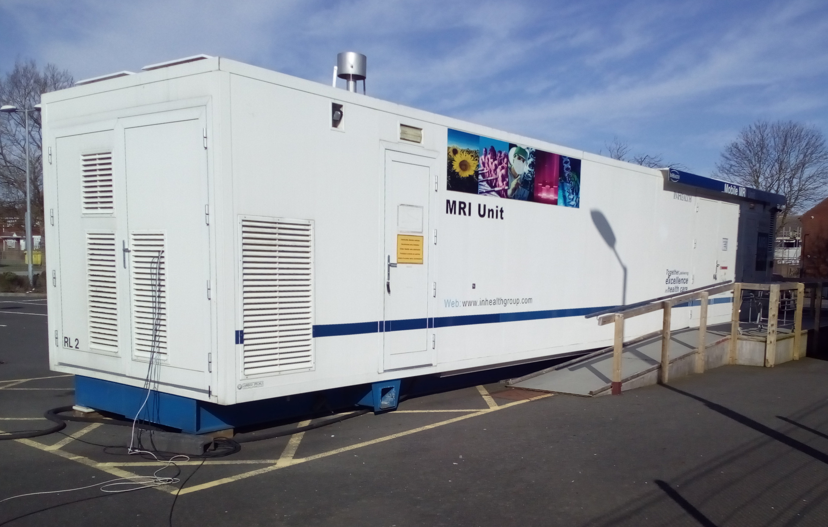 Mobile Magnetic Resonance Imaging (MRI) unit at Glebefields Health Centre, Tipton, Sandwell, England